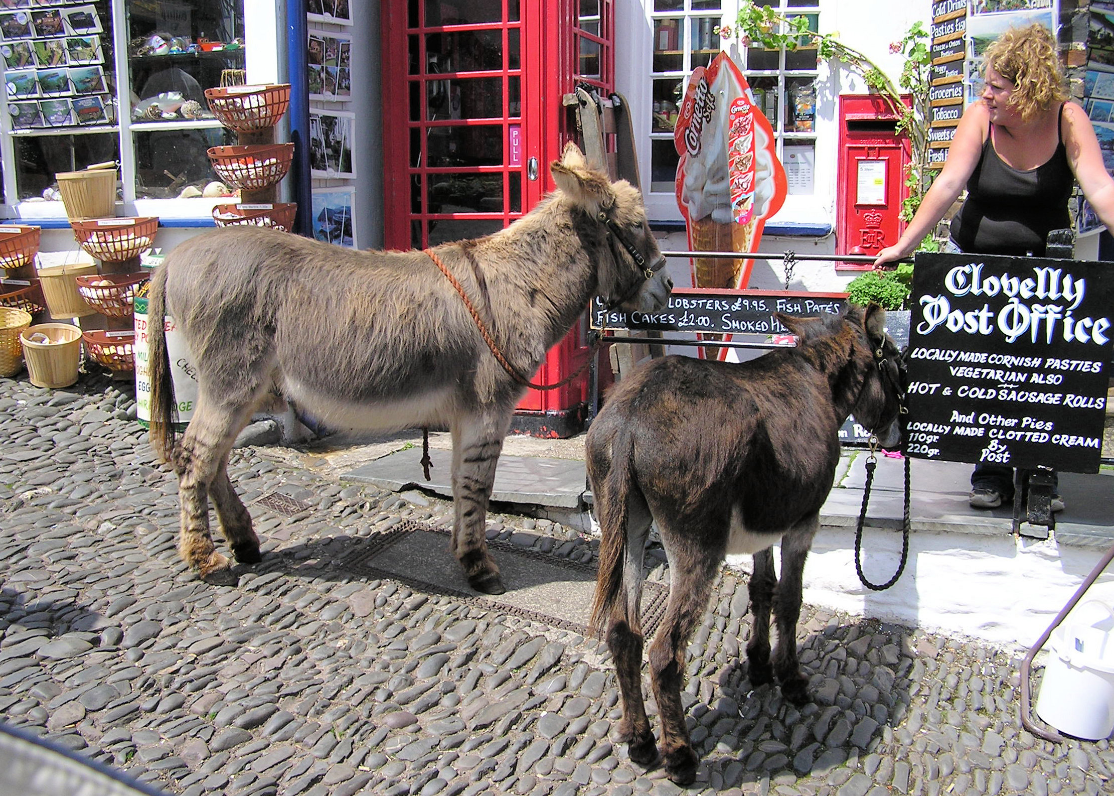 Donkeys outside Clovelly Post Office, on the steep main street. The slope can be seen by comparing the pebbled street with the slate pavement in front of the shop. Taken by Adrian Pingstone in July 2004 and released to the public domain.